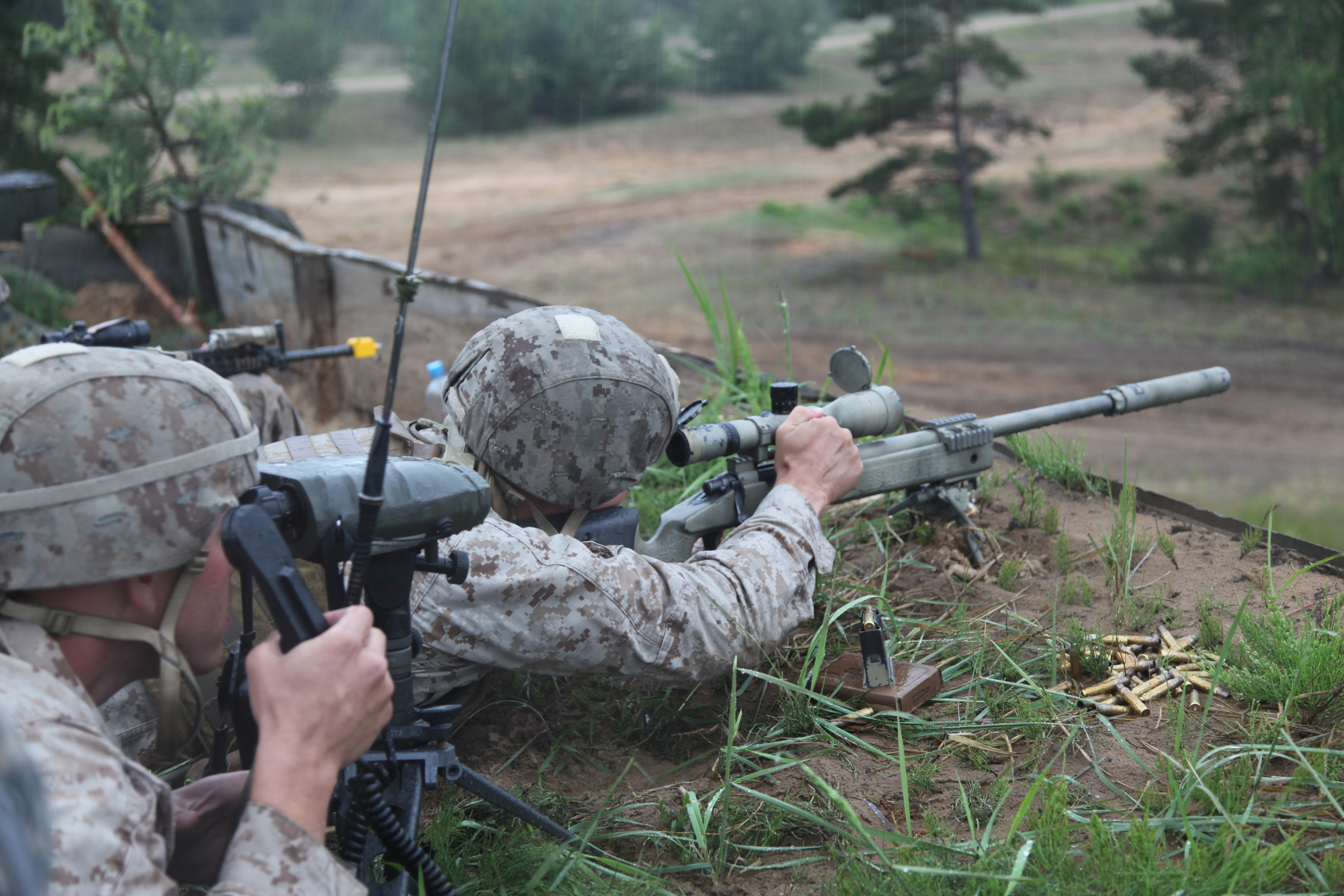 Sgt. Jay Ritonya of the Marines 3rd Battalion 25th Marine Regiment 4th Marine Division Sniper Platoon based in Pennsylvania takes aim at a long range target at the live fire range on Base Camp Adazi, Latvia on June 15, 2012. Sgt. Ritonya is training with fellow marines in order to better his skills as a sniper. U.S. Army Photo by Spc. Edward Bates.